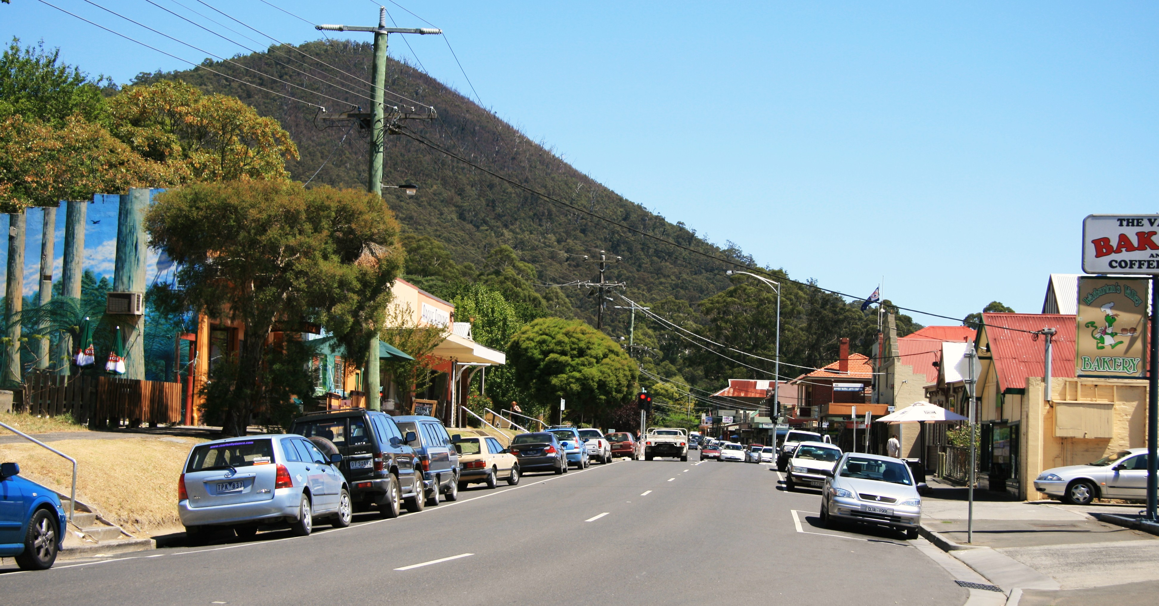 Otherwise known as the Warburton Highway.